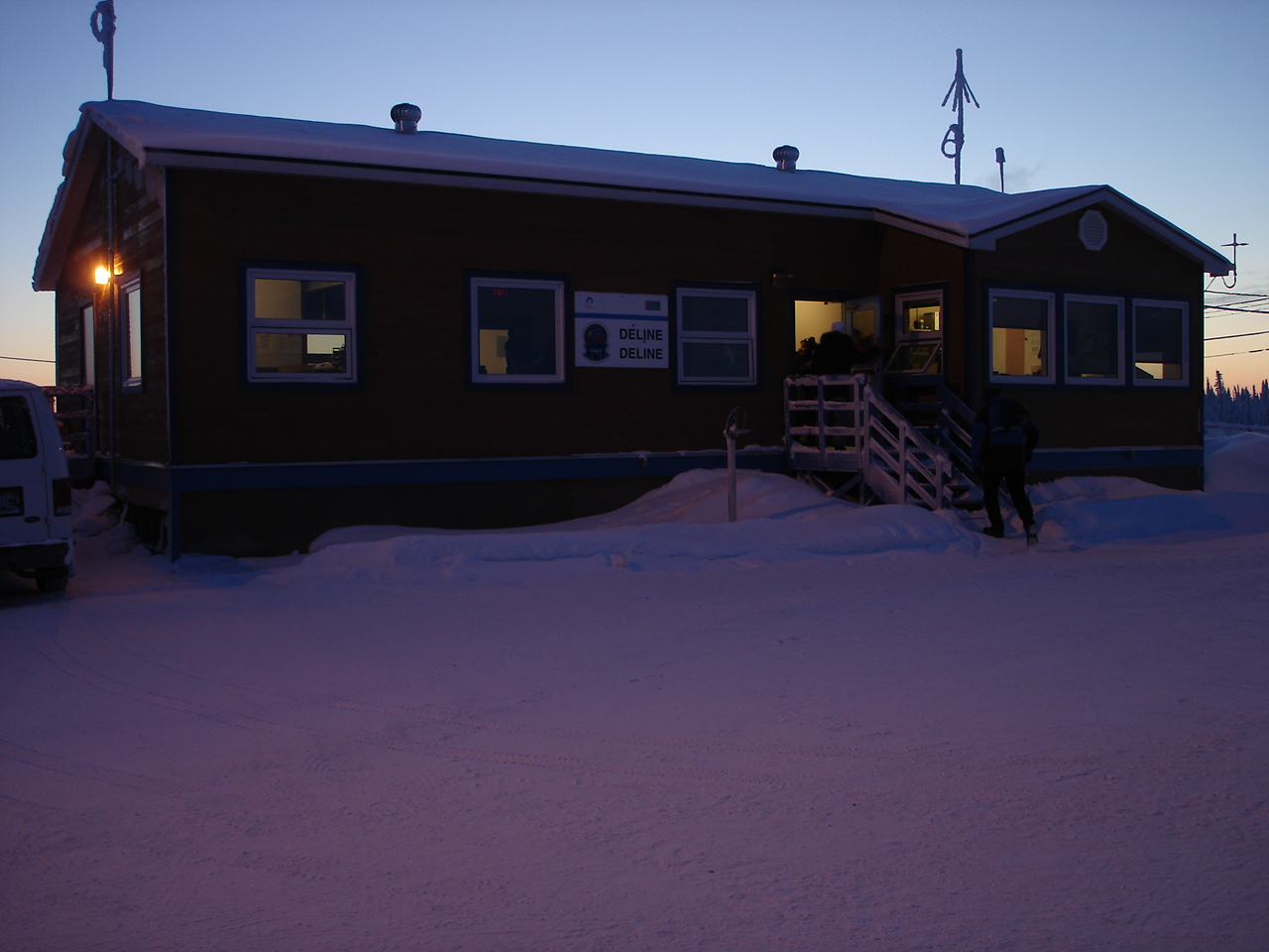 The airport terminal at Deline